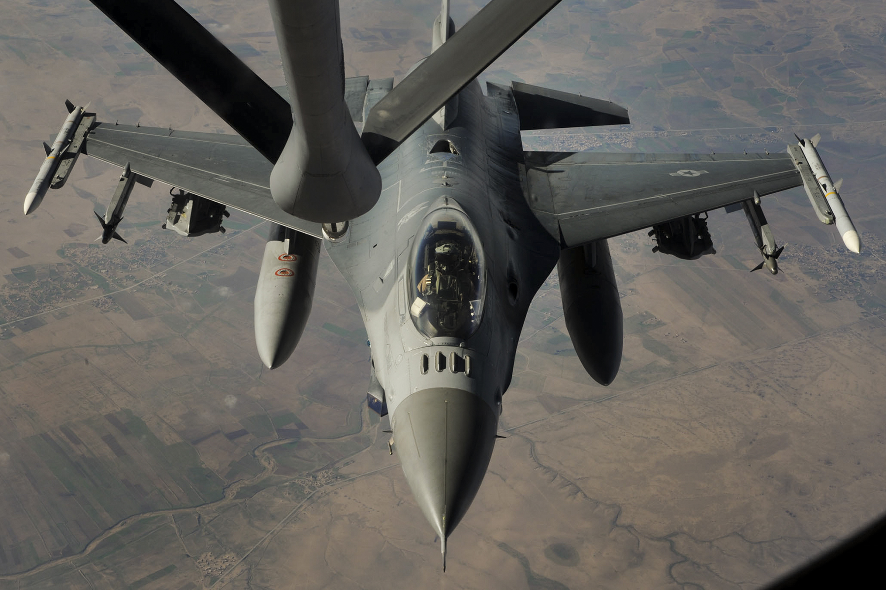 A U.S. Air Force F-16 Fighting Falcon supporting Operation Inherent Resolve receives fuel from a KC-135 Stratotanker, Dec. 16, 2014. (U.S. Air Force photo/ Staff Sgt. Chelsea Browning)